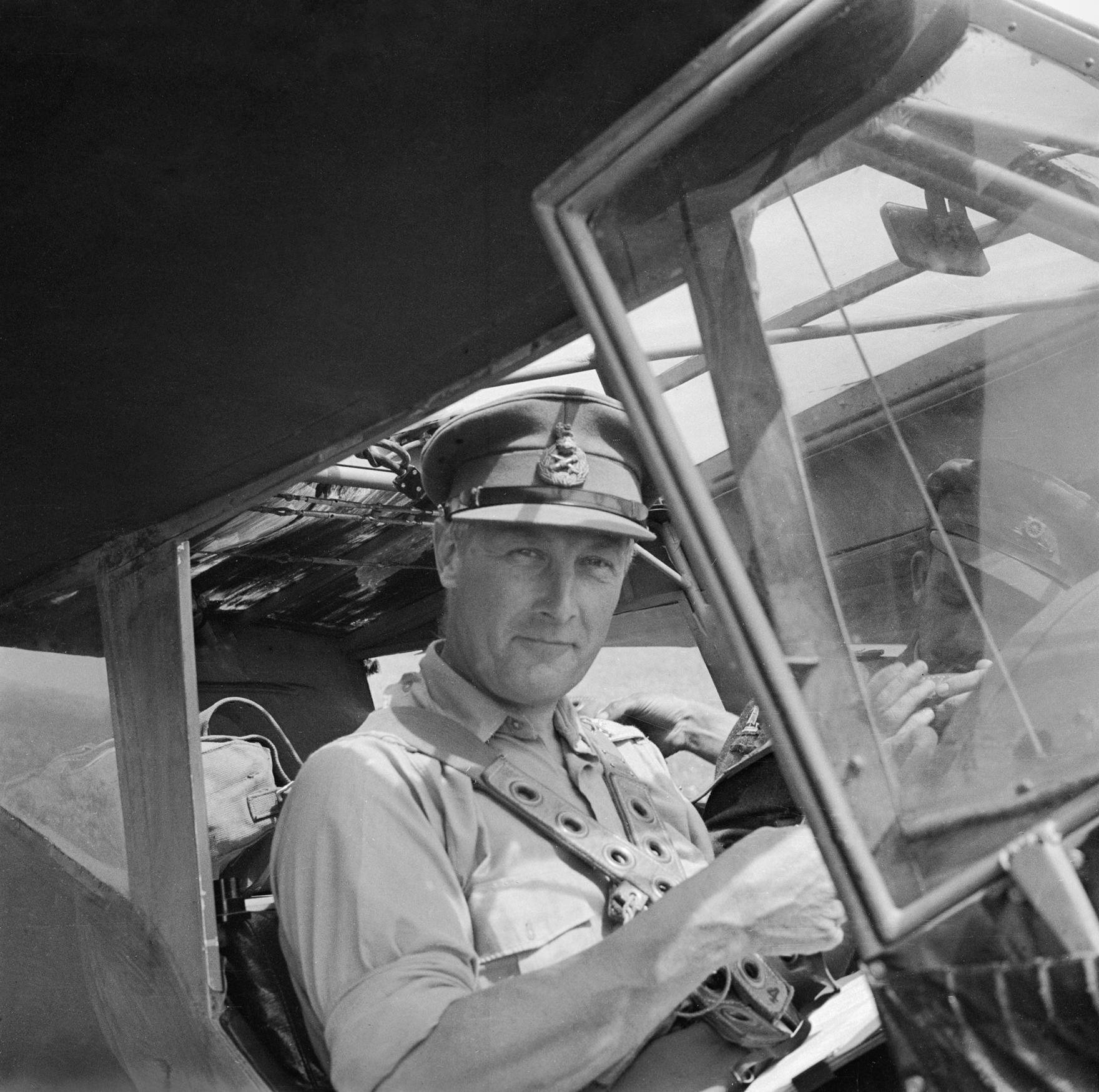 Photograph of Lt Gen Kenneth Anderson in an aircraft, Thibar, Tunisia, 2 May 1943.